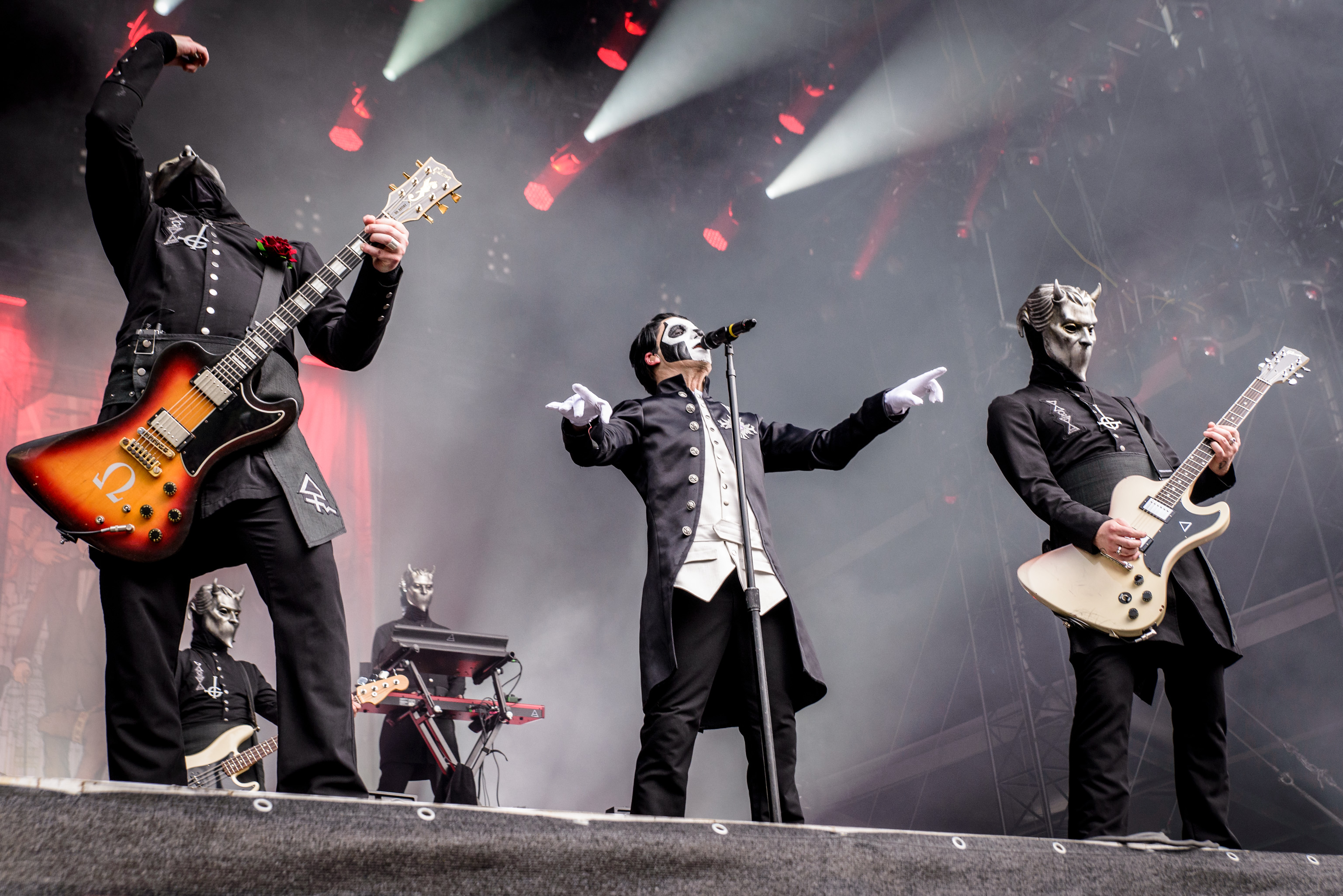 Ghost Live @ Rockavaria 2016